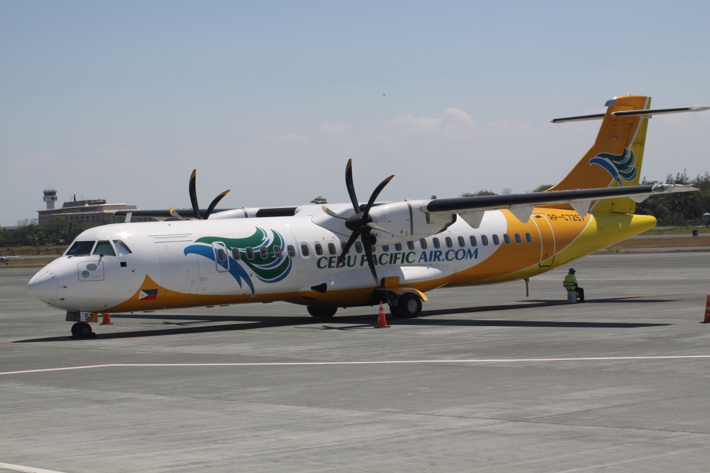 At Manila Ninoy Aquino International